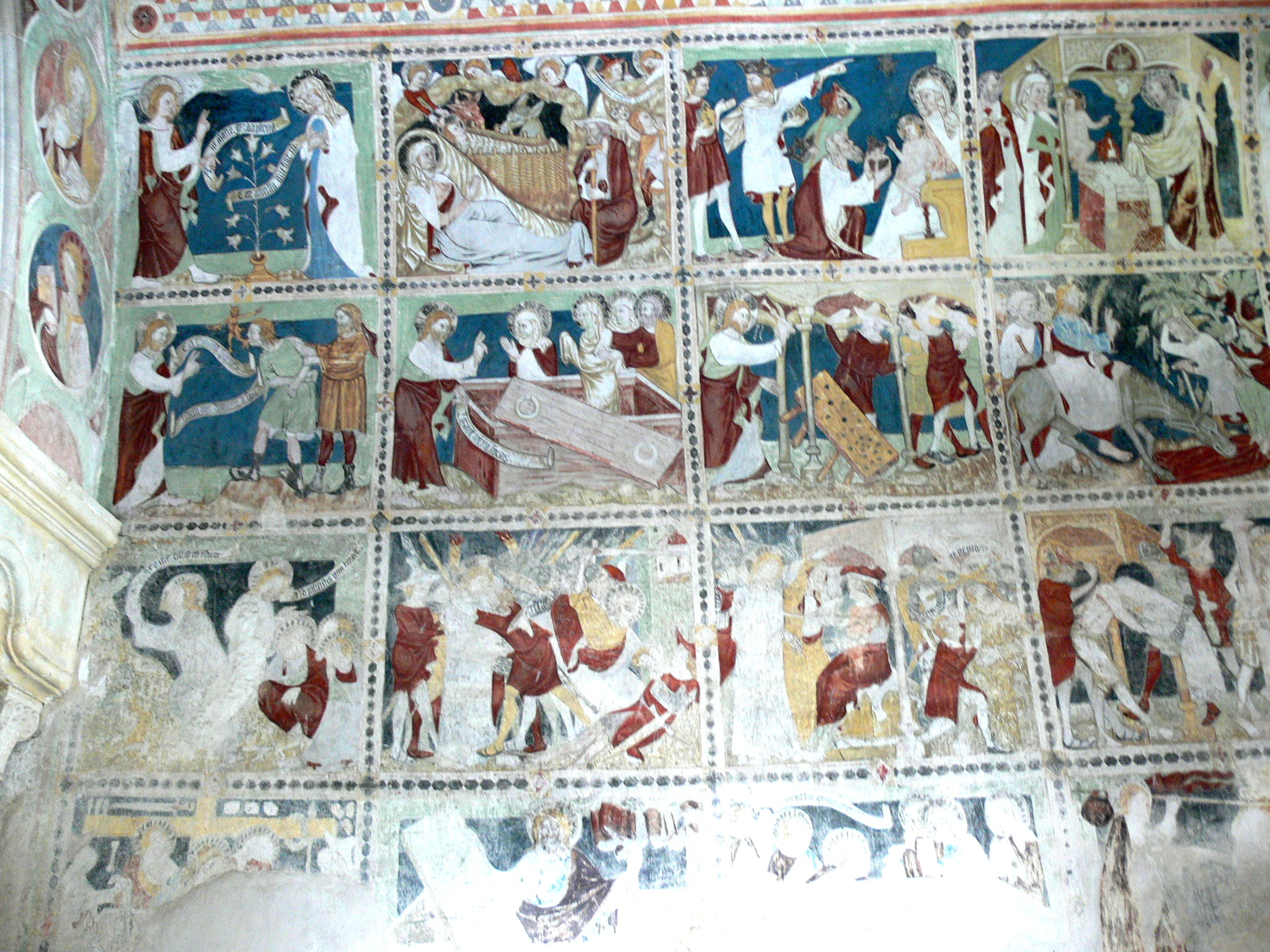 Gurk Cathedral. Outer entrance hall: Frescos showing scenes of the New Testament ( 1340 )